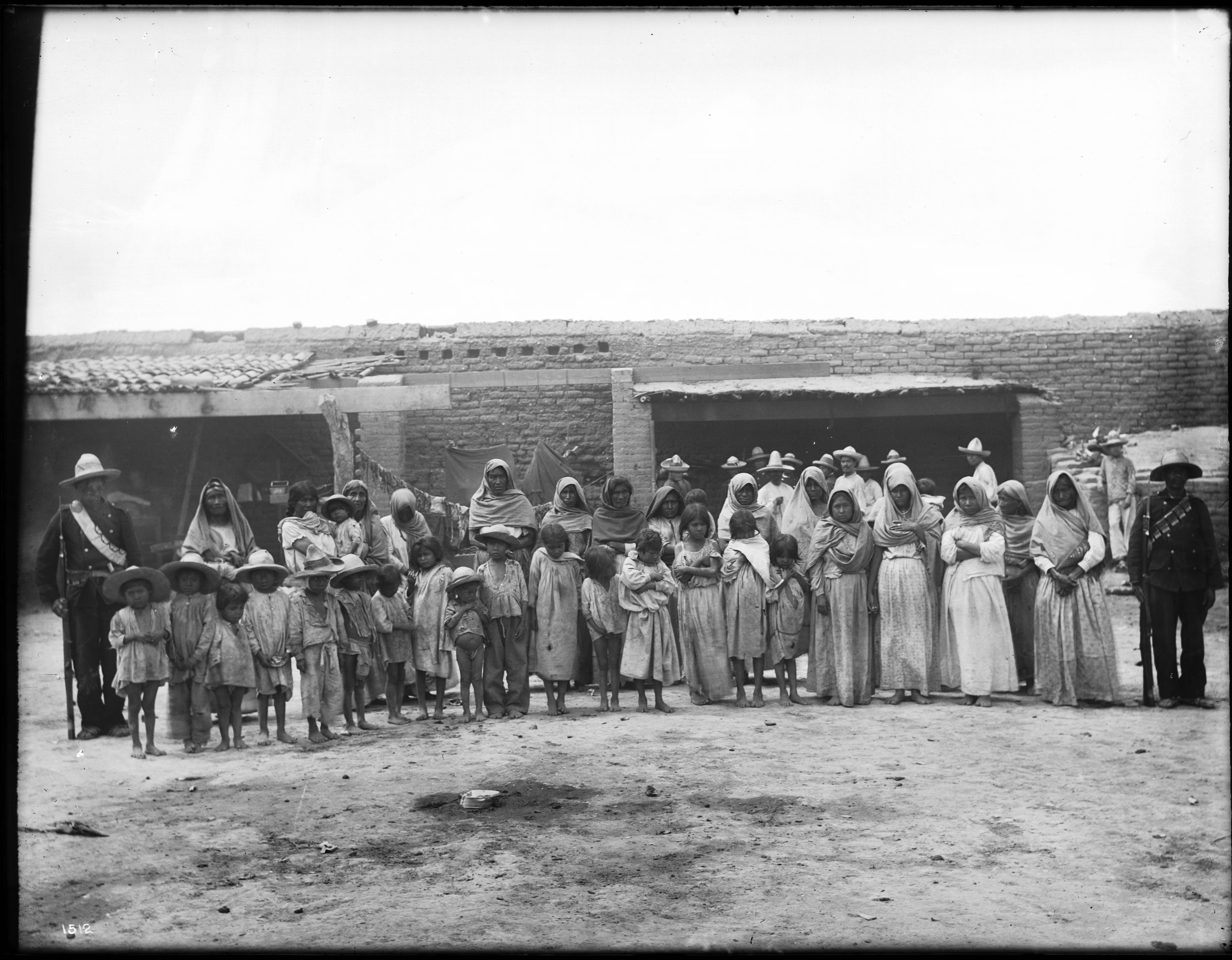 A group of more than 30 women and children Yaqui Indian prisoners under guard, Guaymas, Mexico, ca.1910 Photograph of a group of more than 30 women and children Yaqui Indian prisoners under guard, Guaymas, Mexico, ca.1910. An armed Mexican soldier stands at each side of the group. A large adobe building with a roof partially of tile is visible in the background. About 10 men are visible near the structure. Call number: CHS-1512 Filename: CHS-1512 Coverage date: circa 1910 Part of collection: California Historical Society Collection, 1860-1960 Type: images Part of subcollection: Title Insurance and Trust, and C.C. Pierce Photography Collection, 1860-1960 Repository name: USC Libraries Special Collections Format: glass plate negatives Microfiche number: 1-224- Archival file: chs_Volume92/CHS-1512.tiff Geographic subject (city or populated place): Guaymas Repository address: Doheny Memorial Library, Los Angeles, CA 90089-0189 Subject (adlf): correctional facilities Geographic subject (country): Mexico Format (aacr2): 2 photographs : glass photonegative, photoprint, b&w ; 17 x 22 cm. Rights: Digitally reproduced by the USC Digital Library; From the California Historical Society Collection at the University of Southern California Project: USC Accession number: 1512 Repository Contributing entity: California Historical Society Date created: circa 1910 Publisher (of the digital version): University of Southern California. Libraries Format (aat): photographic prints; photographs Legacy record ID: chs-m15064; USC-1-1-1-14132 Access conditions: Send requests to address or e-mail given. Phone (213) 821-2366; fax (213) 740-2343. Subject (file heading): Mexico -- Indians -- Yaquis Subject (lcsh): Indians of North America; Yaqui Indians